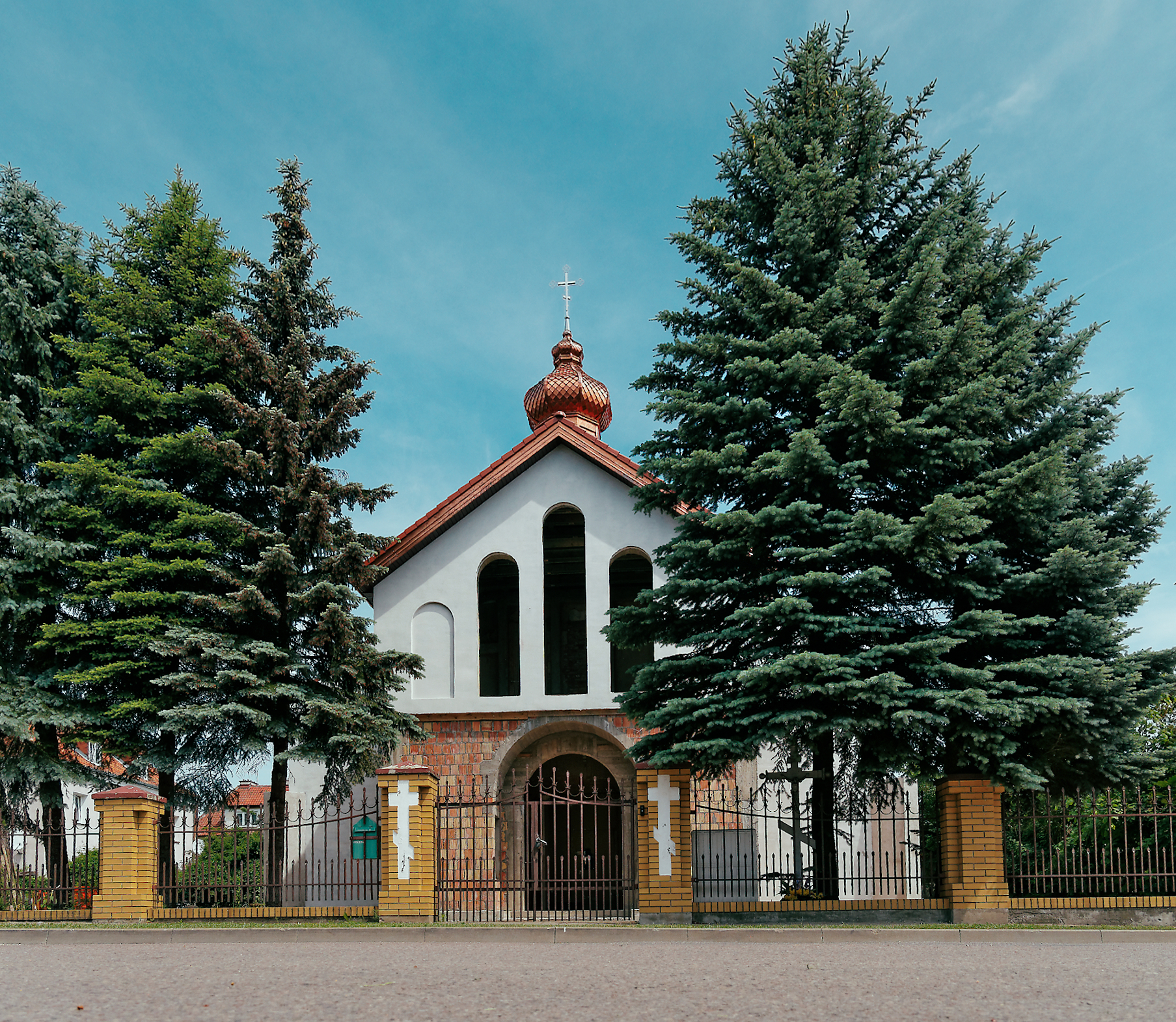 Ełk - the orthodox church on Konopnicka St. under rebuilding - June 2016